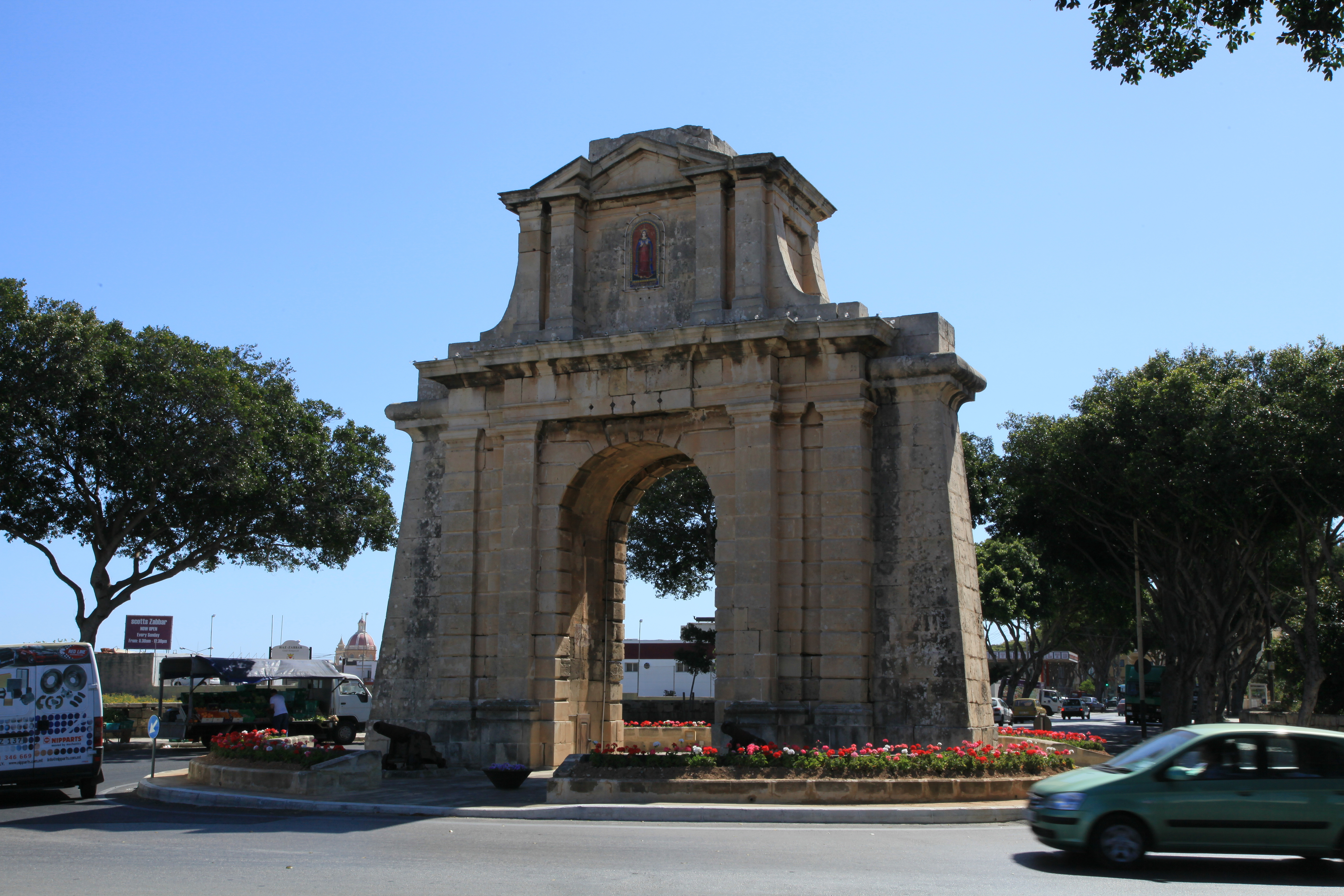 Hompesch Arch at Triq il-Mina ta' Hompesch in Fgura / Triq il-Mina ta' Hompesch in Żabbar, Malta